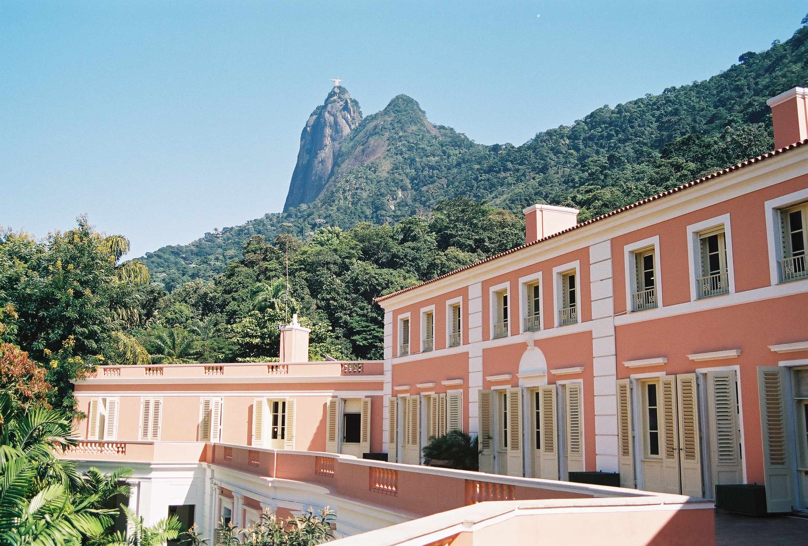 Deutsche Schule Rio de Janeiro